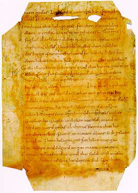 This is an excerpt (from Fragment P) of the Heliand from the German Historical Museum.